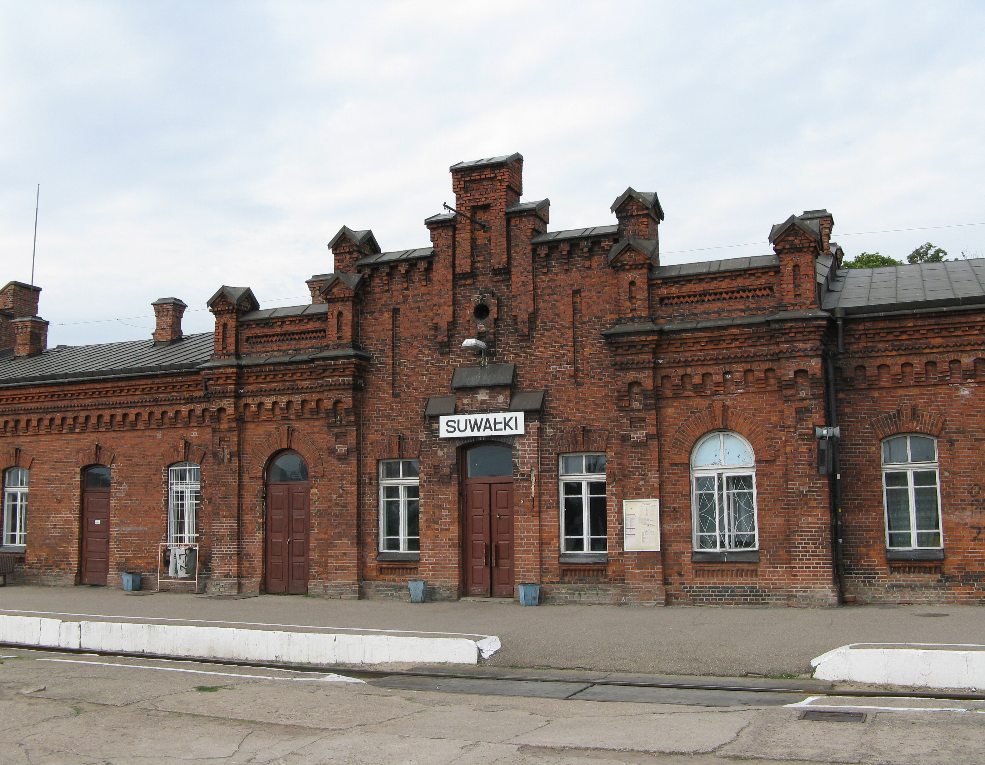 Railway station in Suwalki, Poland. View of platform side.